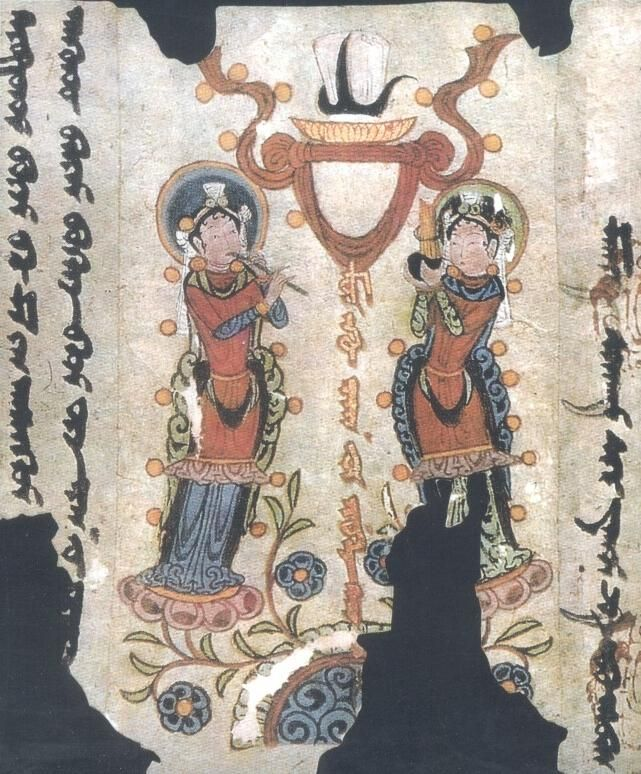 Manichaean miniature image, depicting two female musicians, from a Sogdian-language text.Pictorial insert of a scroll shown from picture-viewing direction (H: ca. 26 cm). Detail of a Turpan Manichaen Illuminated Scroll; Turpan Antiquarian Bureau (Turpan, China), 81 TB 65:01.